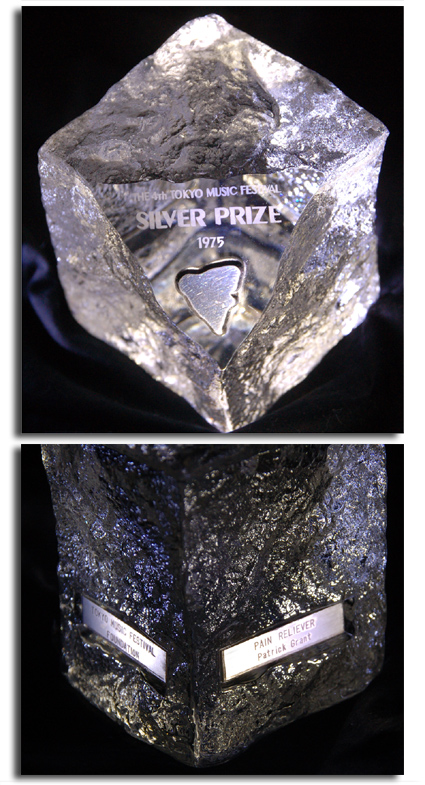 Silver Prize, 1975 Tokyo Music Festival Award for "Pain Reliever" written by Haras (Patrick Grant) Fyre and Gwendolyn Guthrie